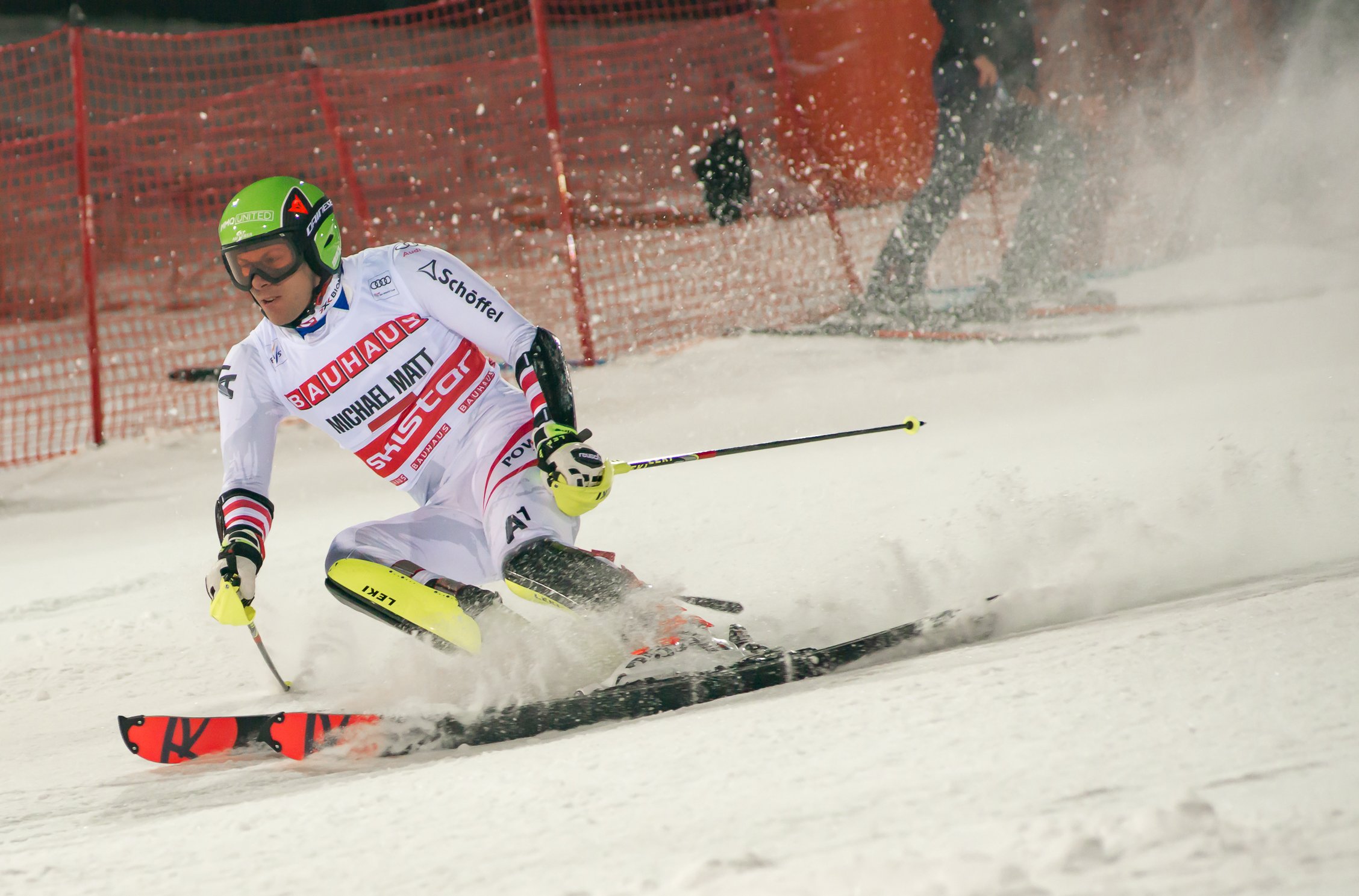 Michael Matt in action Photo by Roland Osbeck